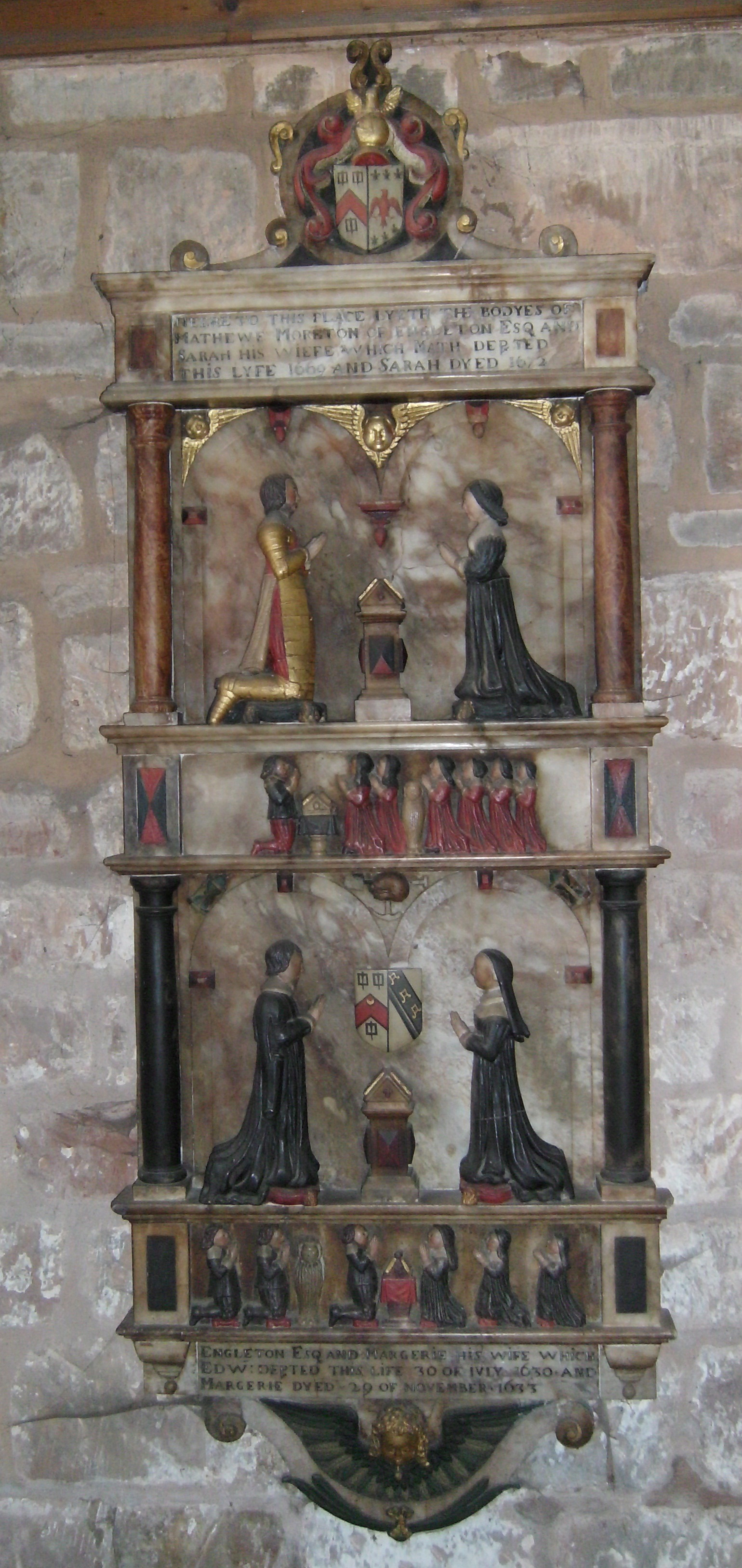 Memorial to Mathew and Sarah Moreton, St Mary and St Chad church, Brewood, Staffordshire, England, late 17th century.